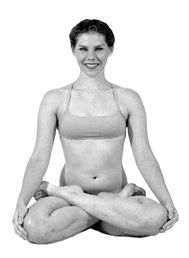 Padmásana for women